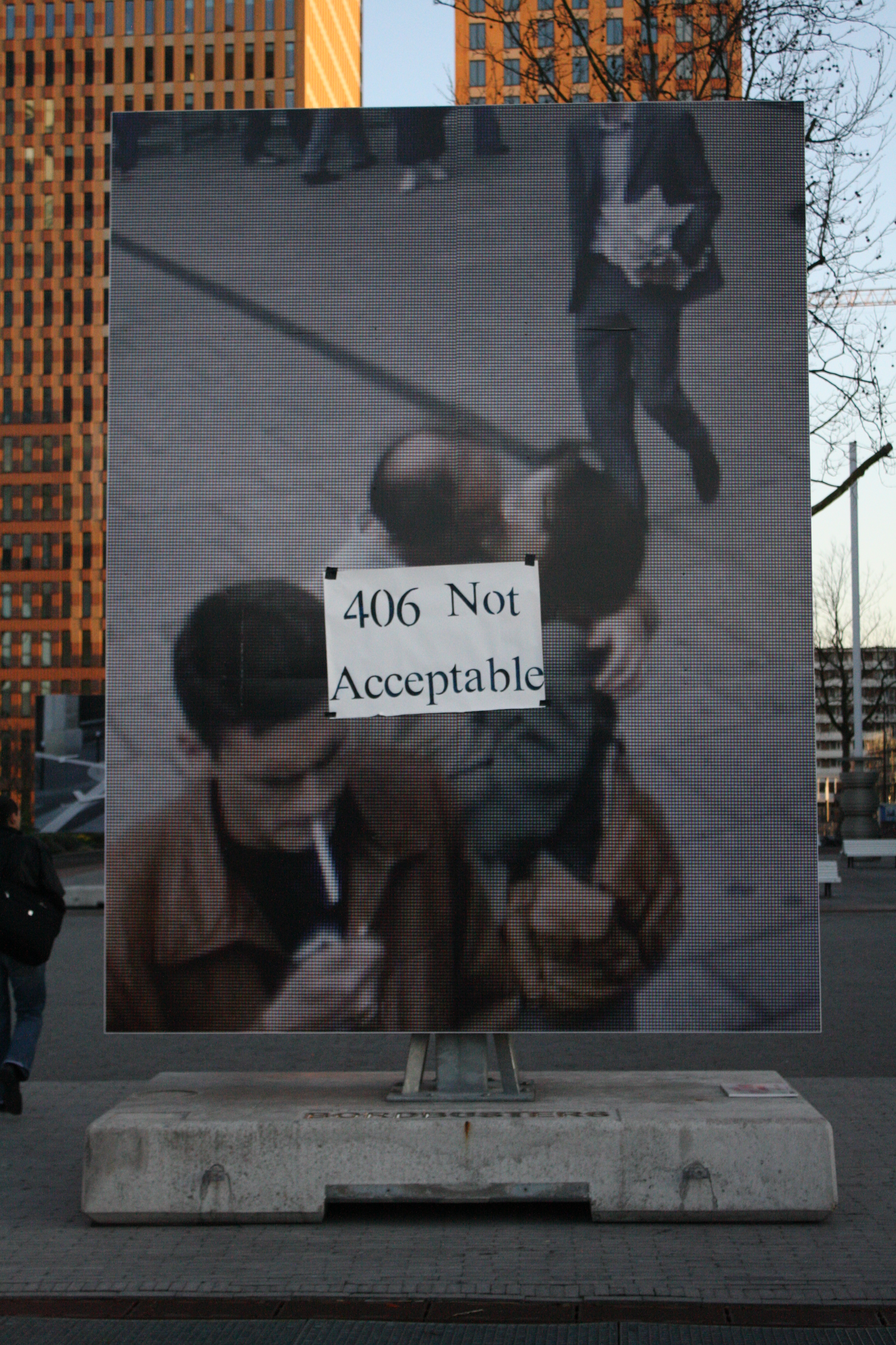 Michael Wolf 406 Not Acceptable